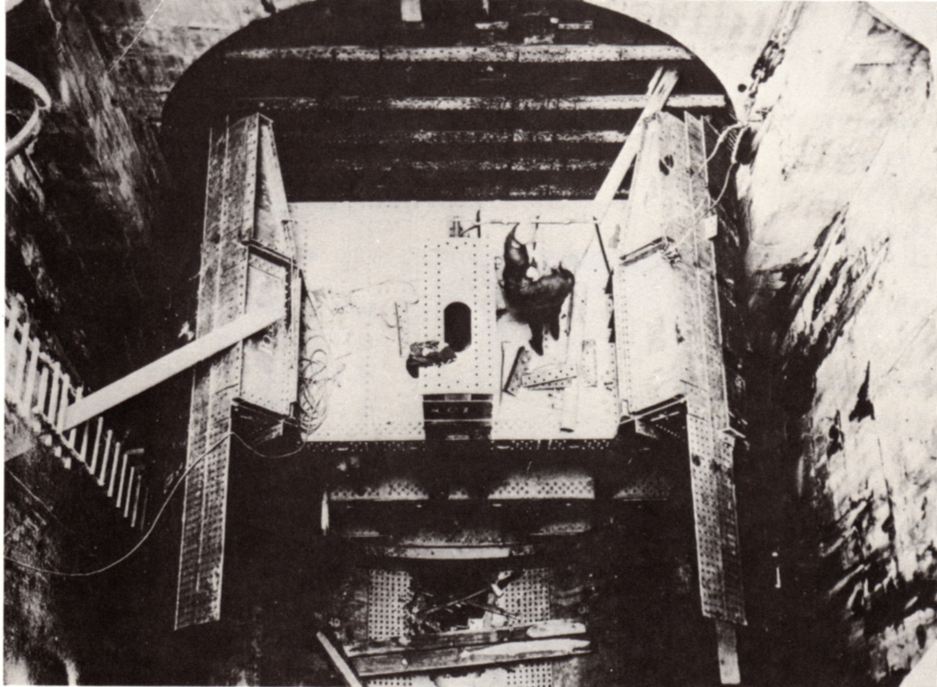 Assembly of shield machine for Kammon railway tunnel